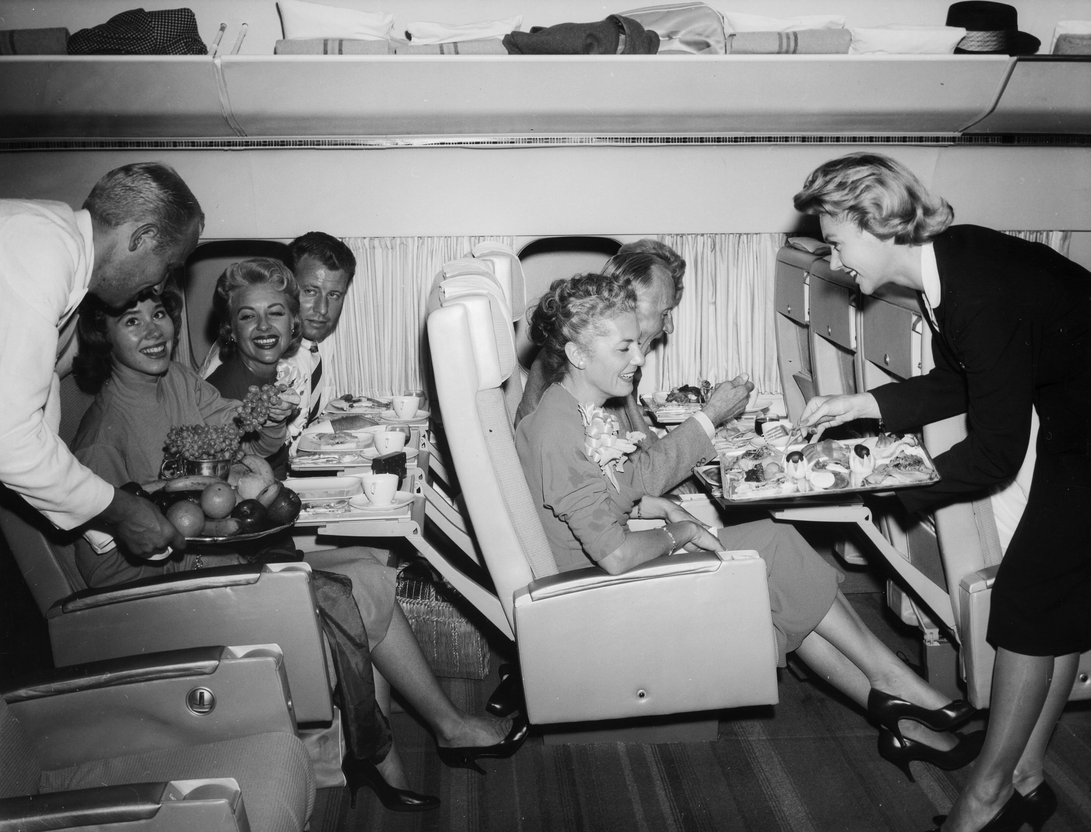 SAS DC-8-33 Interior, service on board, cabin and seats, passengers. New decor